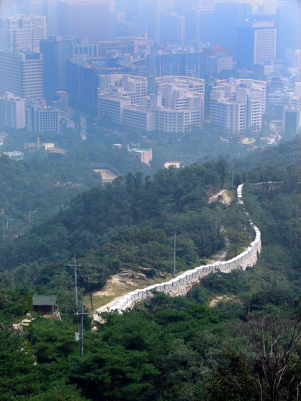 Fort wall on Inwangsan in Seoul